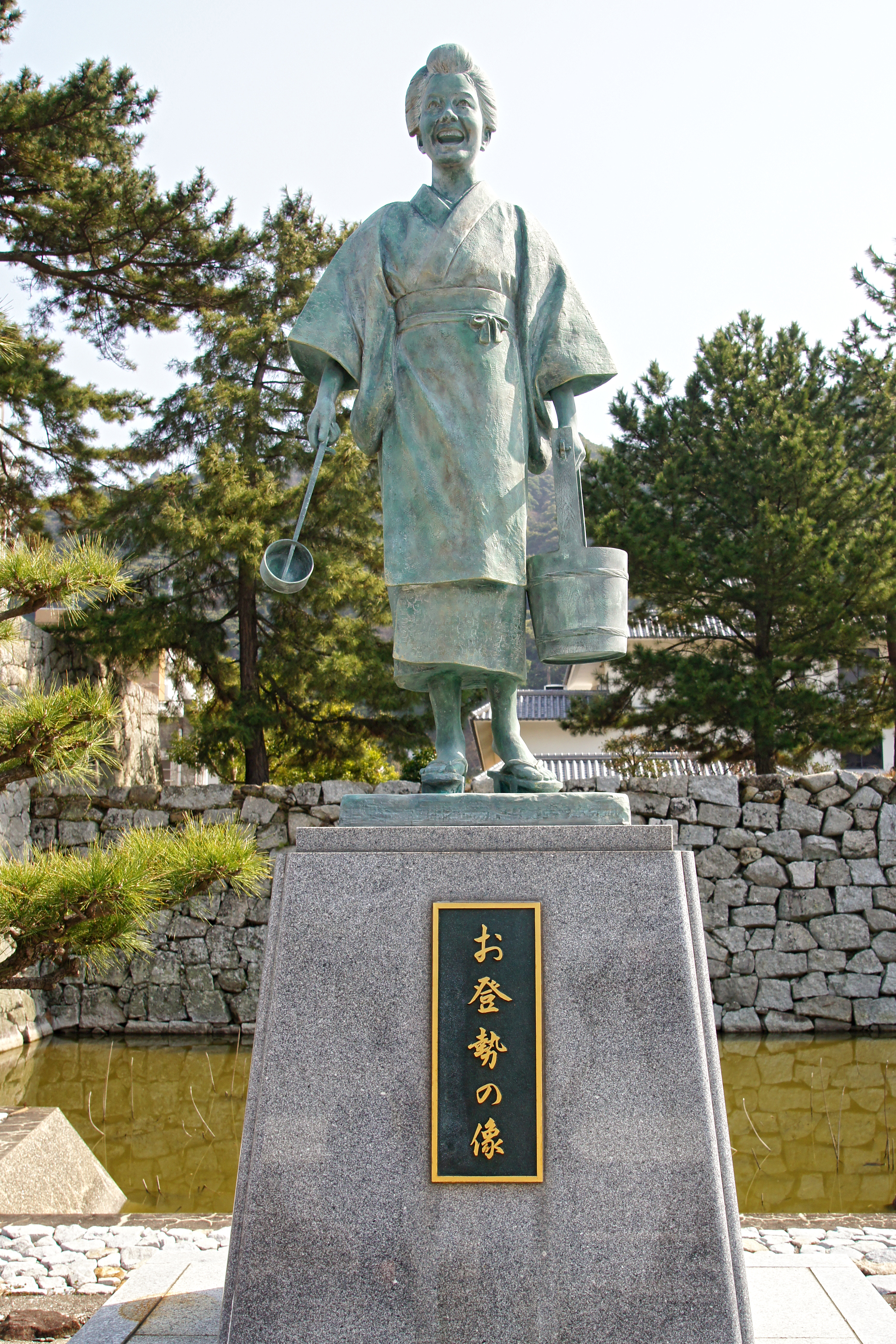 Awajishima Museum in Sumoto, Hyogo prefecture, Japan.